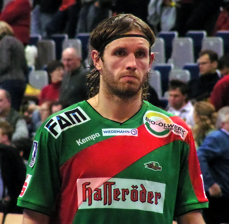 Grzegorz Tkaczyk, on February 21st 2007 in Mannheim SAP Arena (Germany), prior the game SG Kronau-Östringen - SC Magdeburg (32:27).